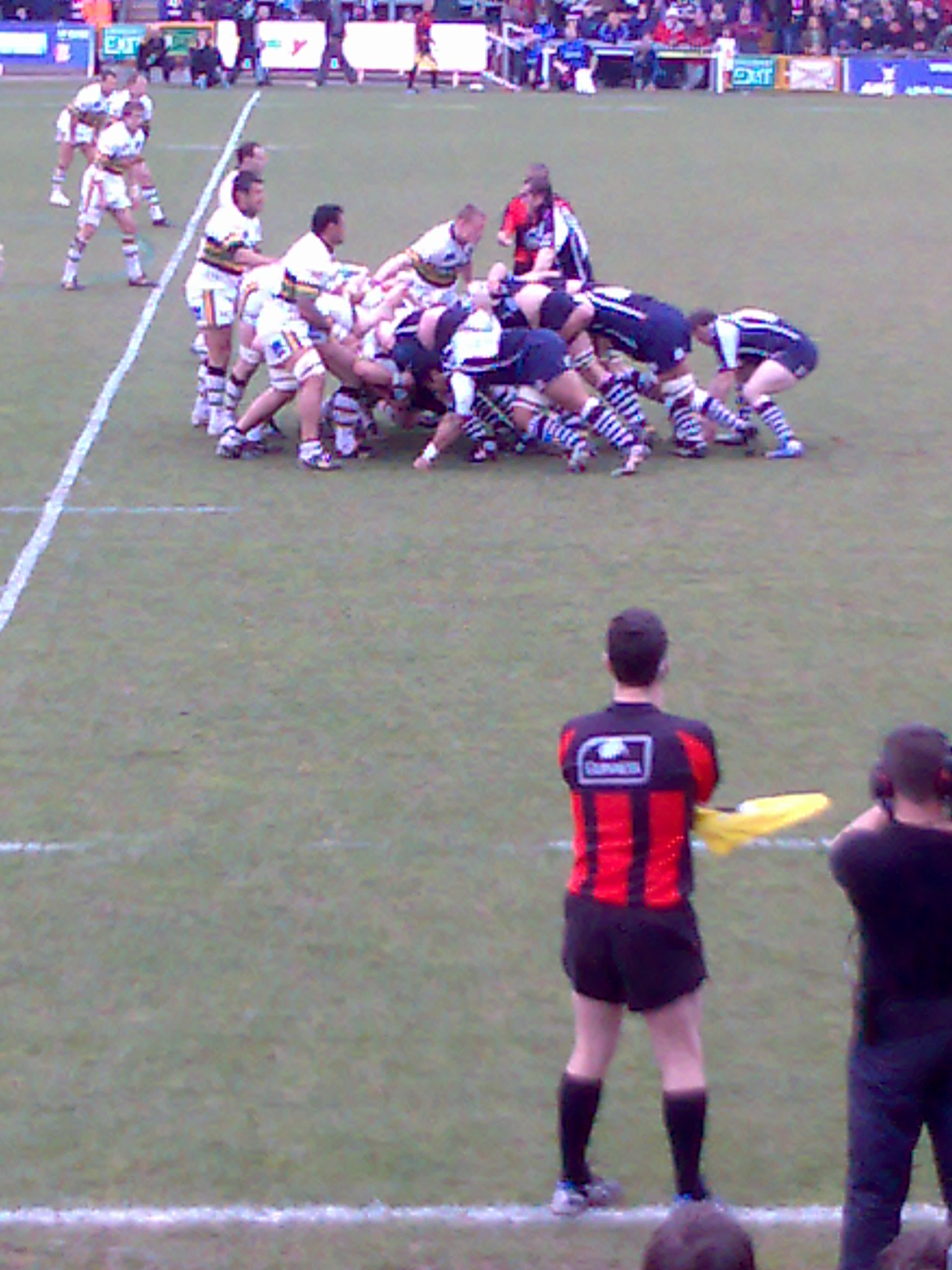 Bristol playing Northampton in the Guinness Premier League